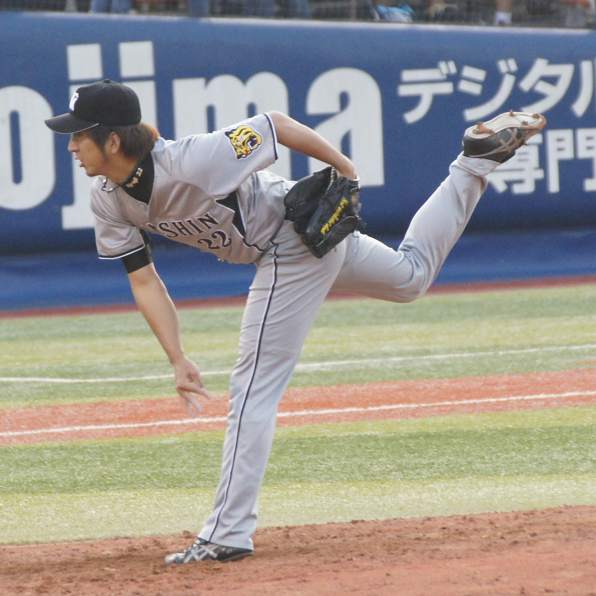 Kyuji Fujikawa, pitcher of the Hanshin Tigers, at Yokohama Stadium.